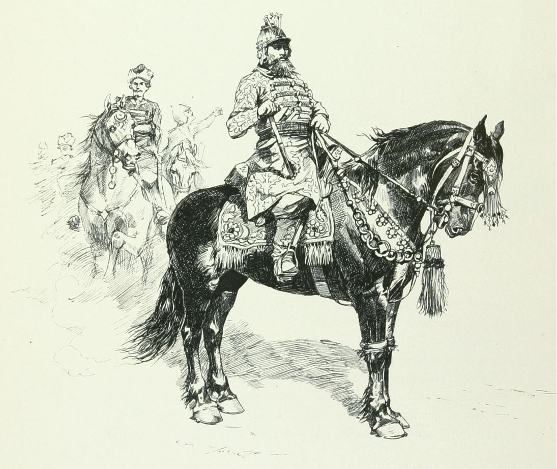 Grand Prince Vasili III Ivanovich